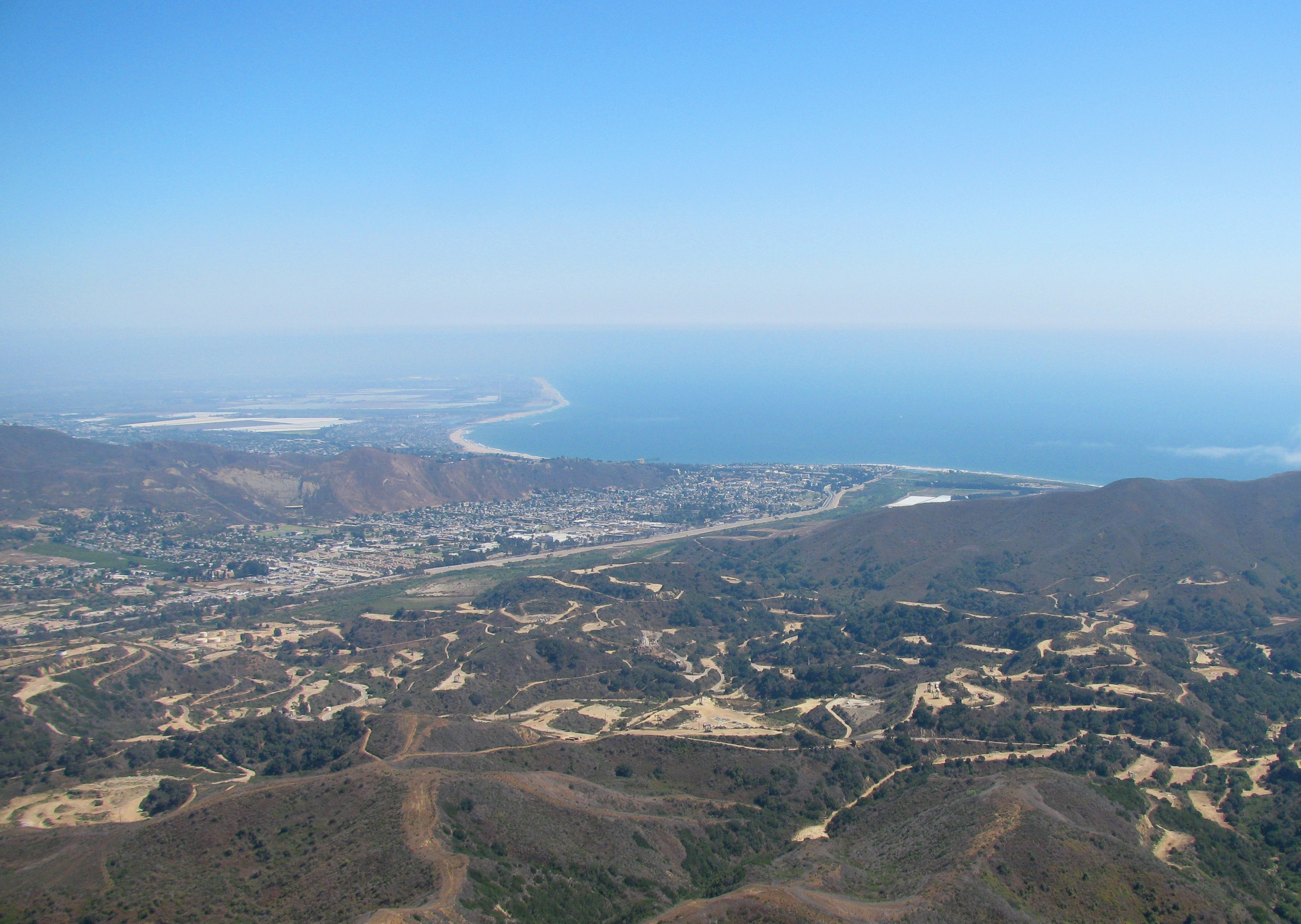 Ventura, viewed from the northwest; the Ventura/San Miguelito Oil Field is in the foreground (July 31, 2009).